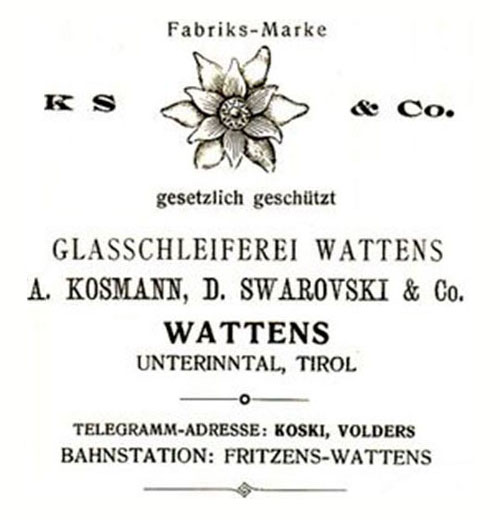 German-language advertisement for Swarovski company in 1899, with first use of an edelweiss flower in the logo.